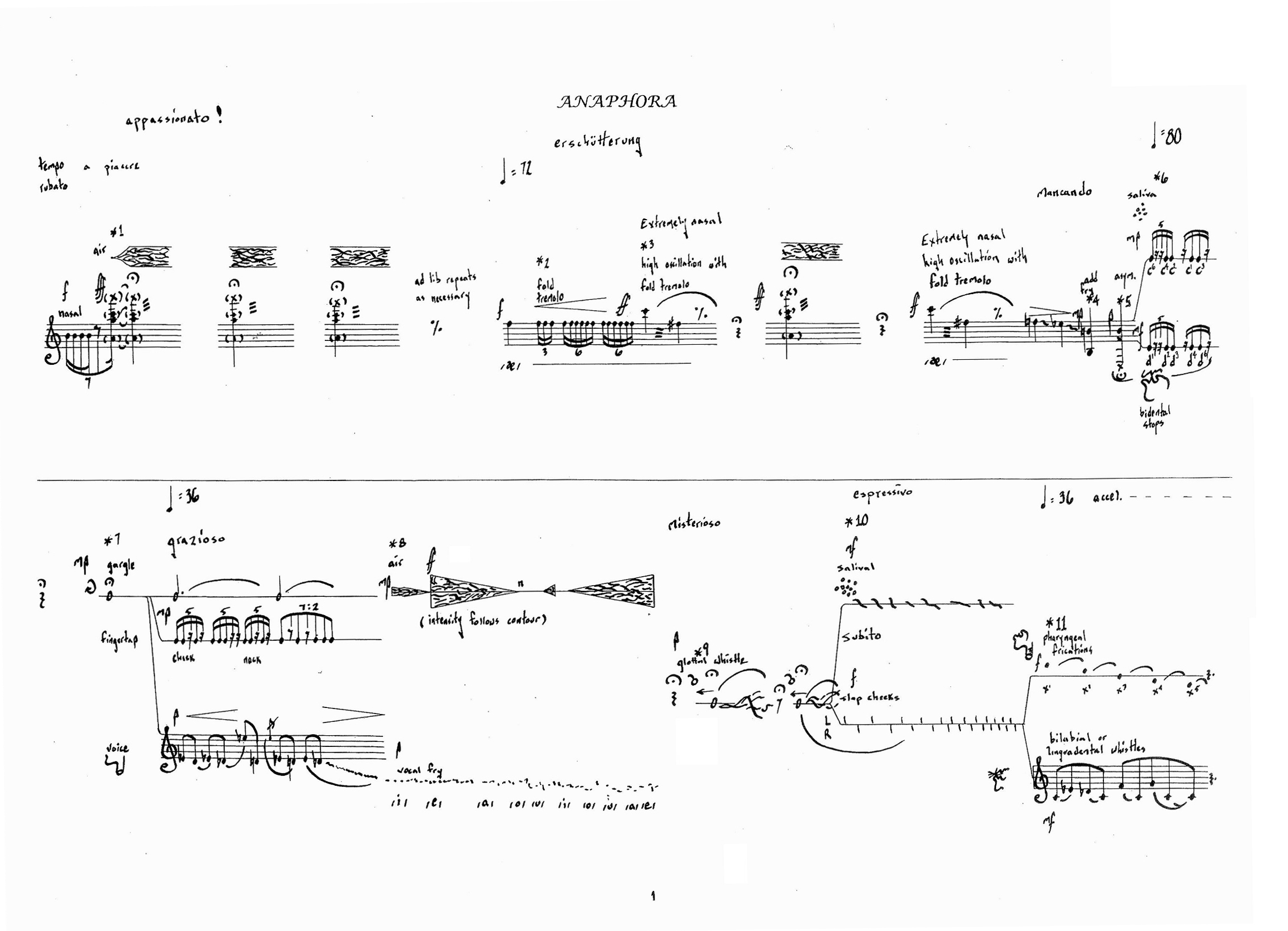 Michael Edward Edgerton, Anaphora, #62, 2001 (page 1)